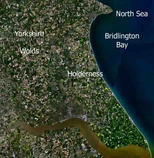 Image Notes Type:Modified satellite image. Source:NASA Worldwinds Author:Harkey Lodger Photographer:NASA Location: Holderness, Yorkshire, UK Date: Sunday 11 March, 2007 Scanner:Epson Stylus Photo RX520 Modifications: Text added to a base image. Rationale: The location and appearance of Holderness Notes: Base image from NASA World Wind. License:The author grants the use of the image under the GDFL and/or Creative Commons licenses.